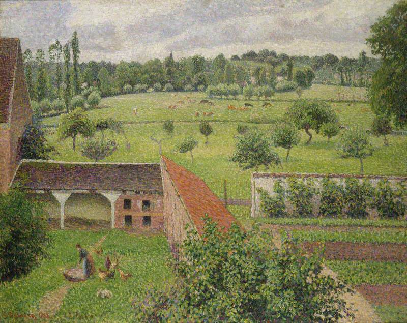 Pissarro, Camille; View from my Window, Eragny-sur-Epte; The Ashmolean Museum of Art and Archaeology